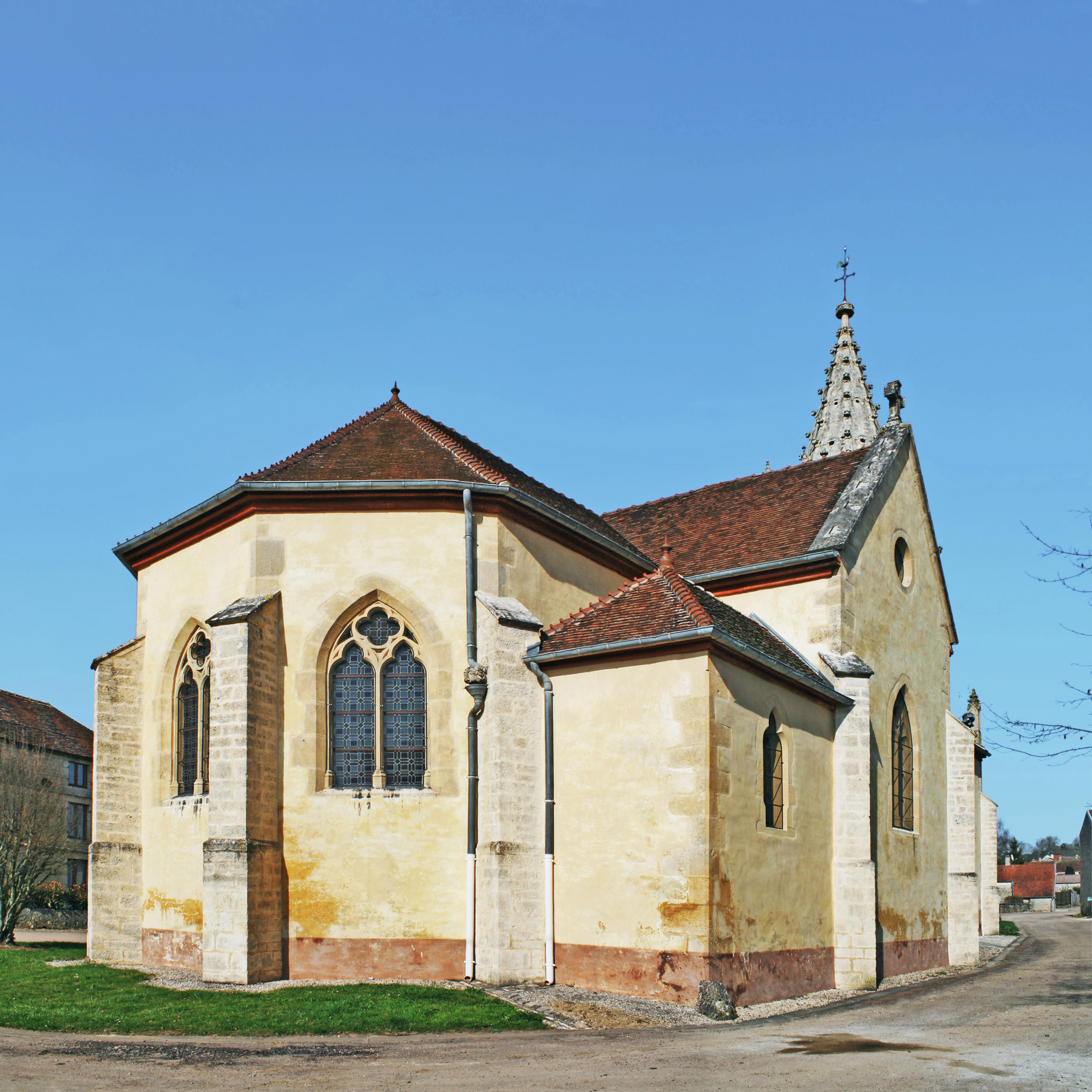 Holy Trinity Church in Magny-Lambert